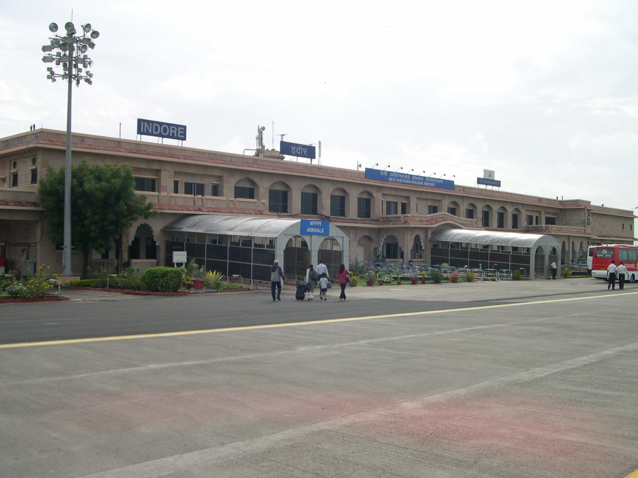 Devi Ahilyabai Holkar International Airport, Indore